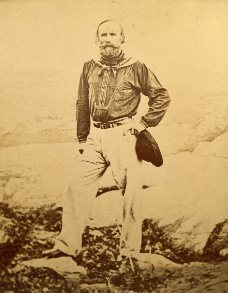 Title: Giuseppe Garibaldi on Caprera... Caption: ITALY - CIRCA 2002: Giuseppe Garibaldi on Caprera. Italian Unification (Risorgimento), Italy, 19th century. (Photo by DeAgostini/Getty Images) Date created: 01 Jan 2002 Editorial image #: 150617111 Restrictions: Contact your local office for all commercial or promotional uses. License type: Rights-managed Photographer: DEA / A. DE GREGORIO/Contributor Collection: De Agostini Credit: De Agostini/Getty Images Max file size/dimensions/dpi: 27.8 MB - 2758 x 3528 px (9.19 x 11.76 in.) - 300 dpi Download file size may vary. Source: De Agostini Editorial Release information: Not released. More information Bar code: 11199152 Object name: 11199152 Keywords: Pride, People, Confidence, History, Leadership, Hat, Vertical, Full Length, Outdoors, Front View, Sepia Toned, Standing, Italy, On Top Of, Mountain Peak, Day, British Columbia, One Person, Adult, Mature Adult, Politics, Hand On Hip, One Mature Man Only, Only Men, One Man Only, Historical Clothing, 19th Century Style, Garibaldi Park, Adults Only, Giuseppe Garibaldi, Caprera, Arts Culture and Entertainment. Find similar images Availability: Availability for this image cannot be guaranteed until time of purchase.